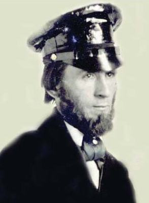 Charles Johnson, assistant surgeon, 10th Regiment Tennessee Volunteer Infantry, was killed April 4, in a fall. Note: Although forced to take the Confederate oath of allegiance, Andrew Johnson’s son Charles escaped East Tennessee and joined the Union Army as an assistant surgeon with the 10th Tennessee Infantry. His life was cut tragically short when he was thrown from a horse and killed shortly after the Battle of Stones River in 1863.